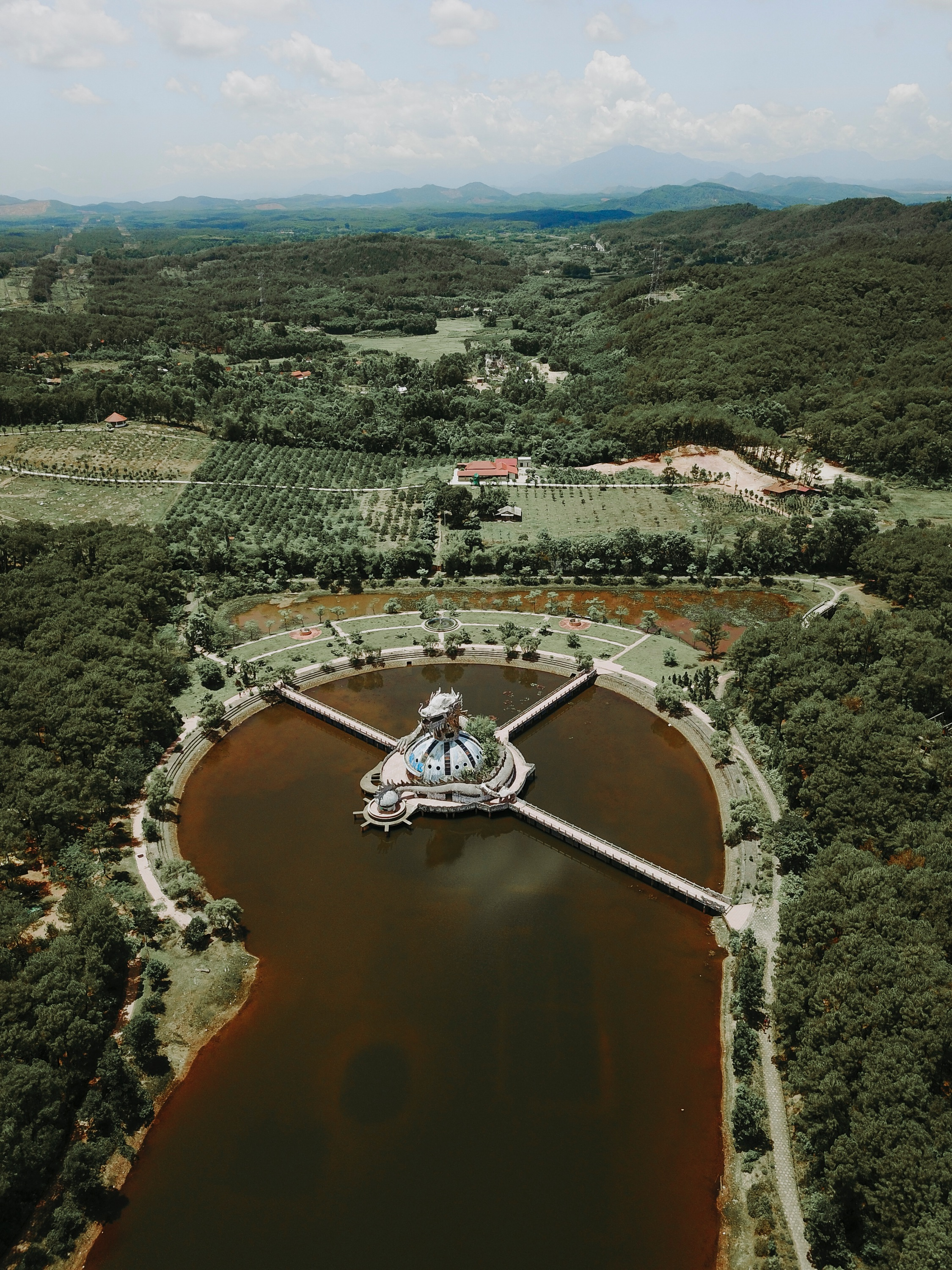 Abandoned waterpark Ho Thuy Tien, Vietnam